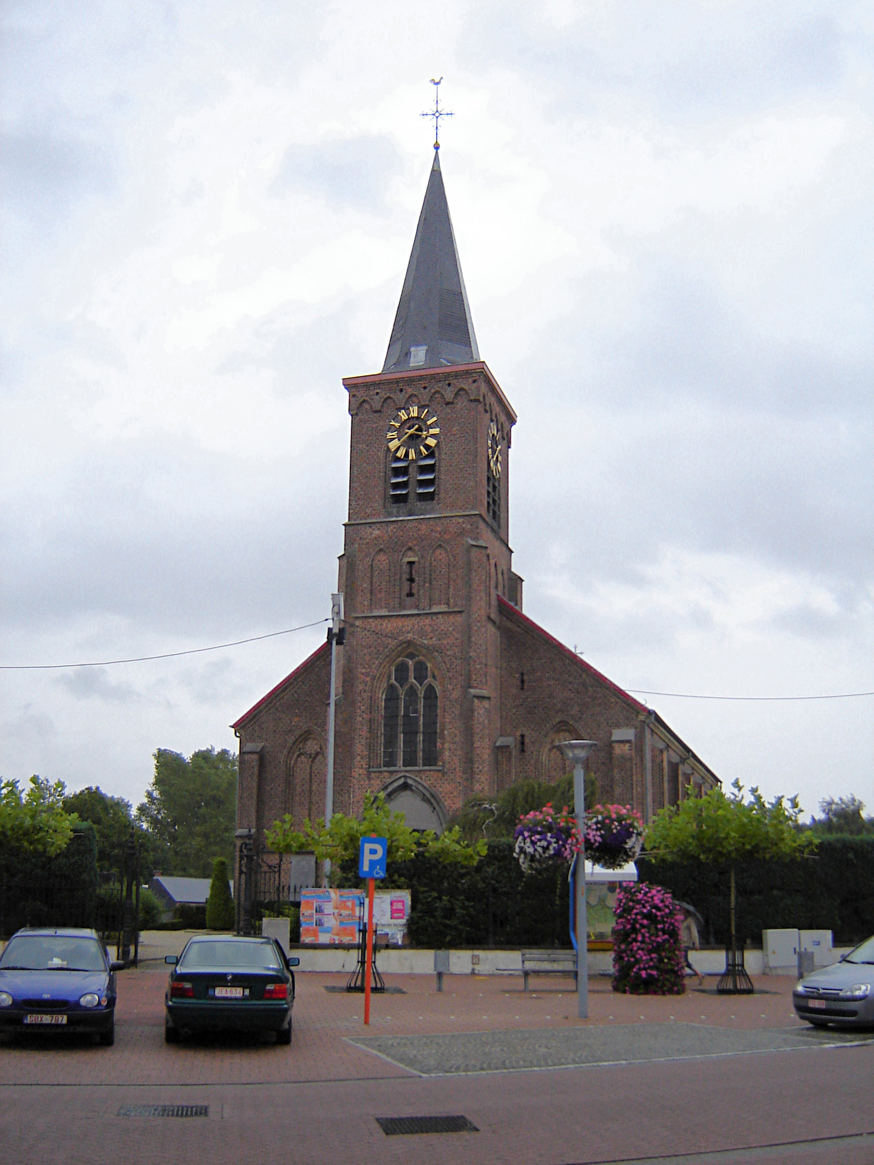 Church of Saint Denis in Serskamp. Serskamp, Wichelen, East Flanders, Belgium